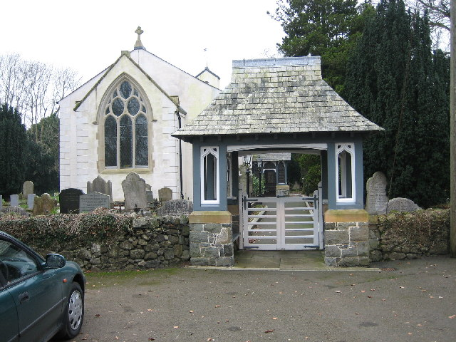 St Catherine's Parish Church (C of I) Killead. One of the oldest (1712) in the Diocese of Connor, the Church is situated inside RAF Aldergrove, which is a military establishment subject to strong security. I had to be issued with passes for myself and my car and the RAF personnel couldn't have been more helpful and cheerfully offered me every facility. Services are held every Sunday. The wife of the Incumbent has recently published a book on the Parish of Killead and Gartree, which initially roused my interest.